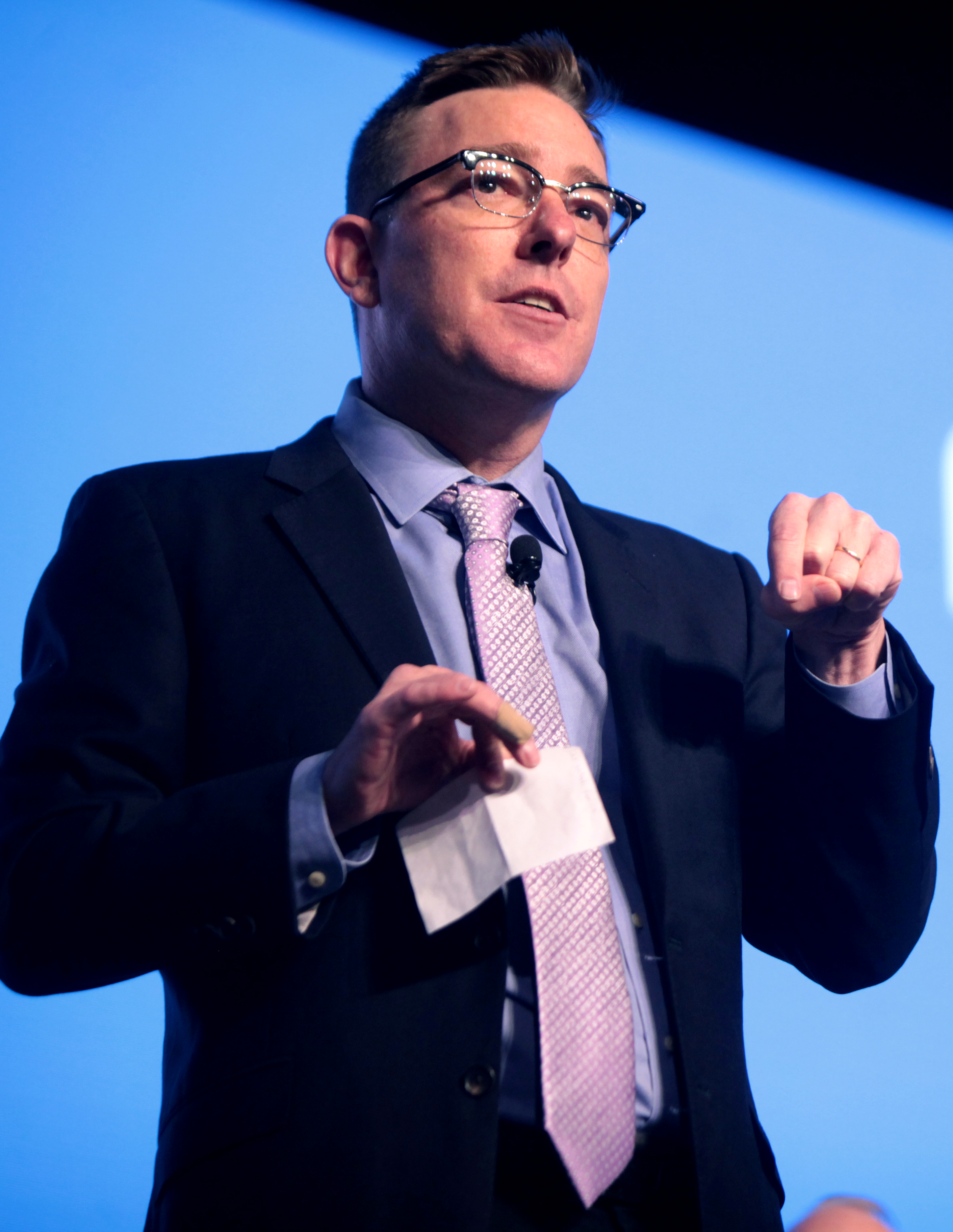 Matt Welch speaking at an event in Las Vegas, Nevada.